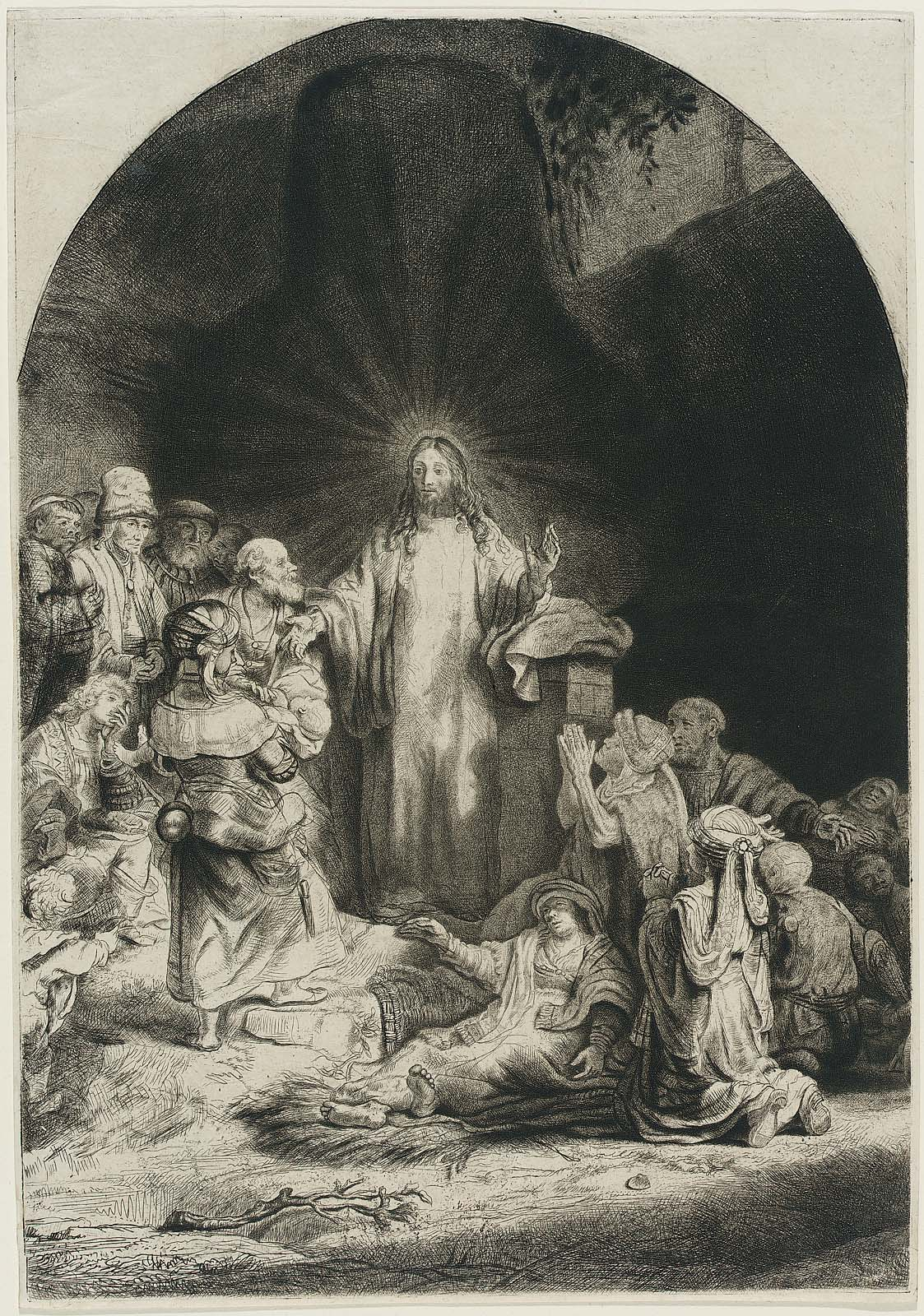 One of the four parts of The Hundred Guilder Print by Rembrandt that William Baillie reworked. Museum of Fine Arts of Boston, USA.